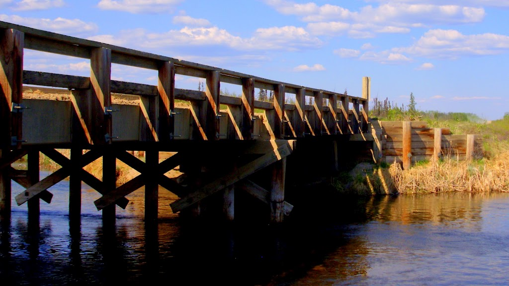 The road to Garson Lake as seen looking east by the road bridge at the La Loche River.